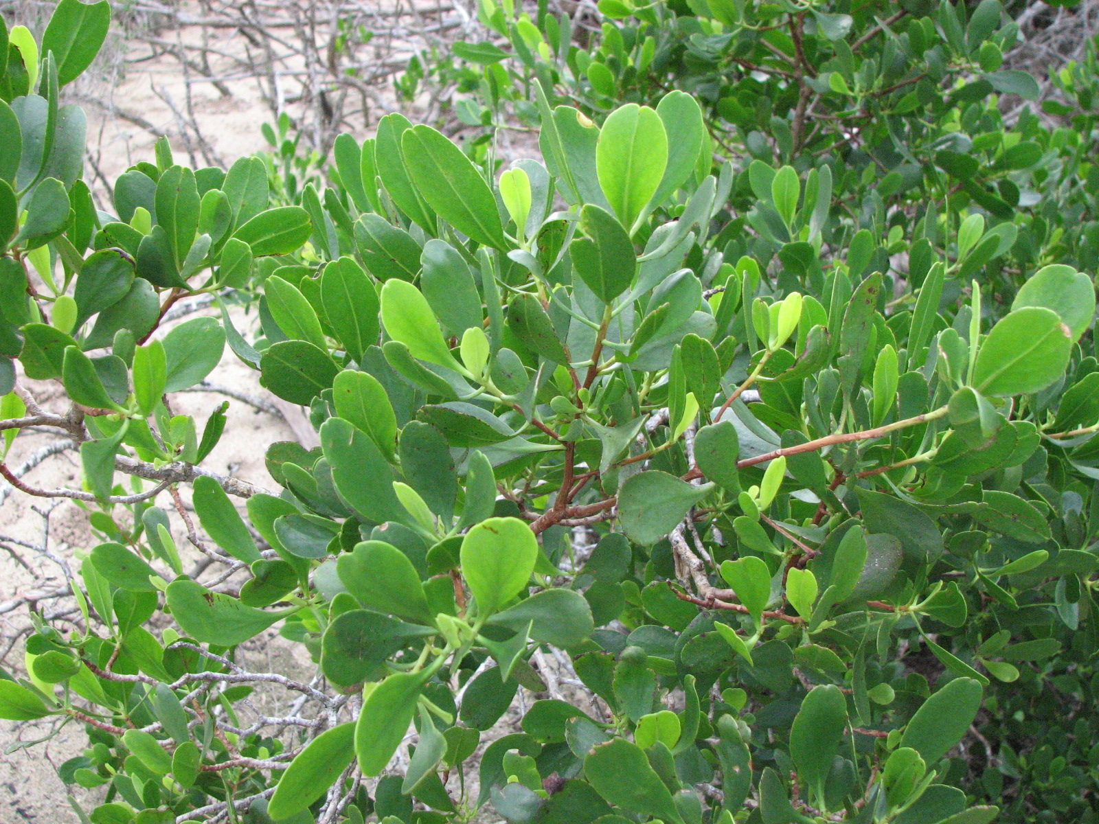 ヒルギモドキ(西表島)(Lumnitzera racemosa Willd. (Iriomote isl. Japan)